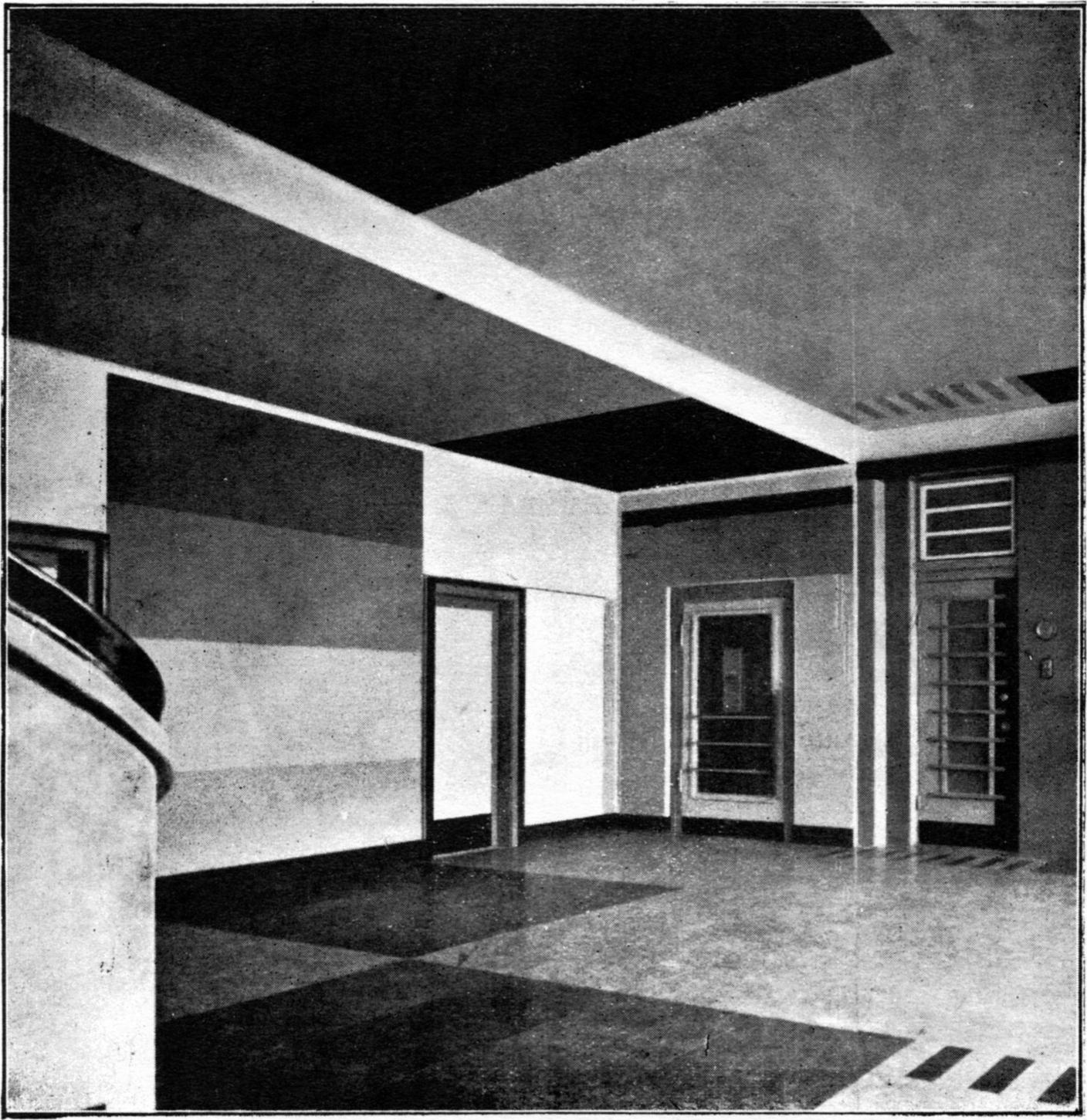 A. Fischer (architect) and Max Burchartz (interior designer). Hans Sachs-Haus, Gelsenkirchen.